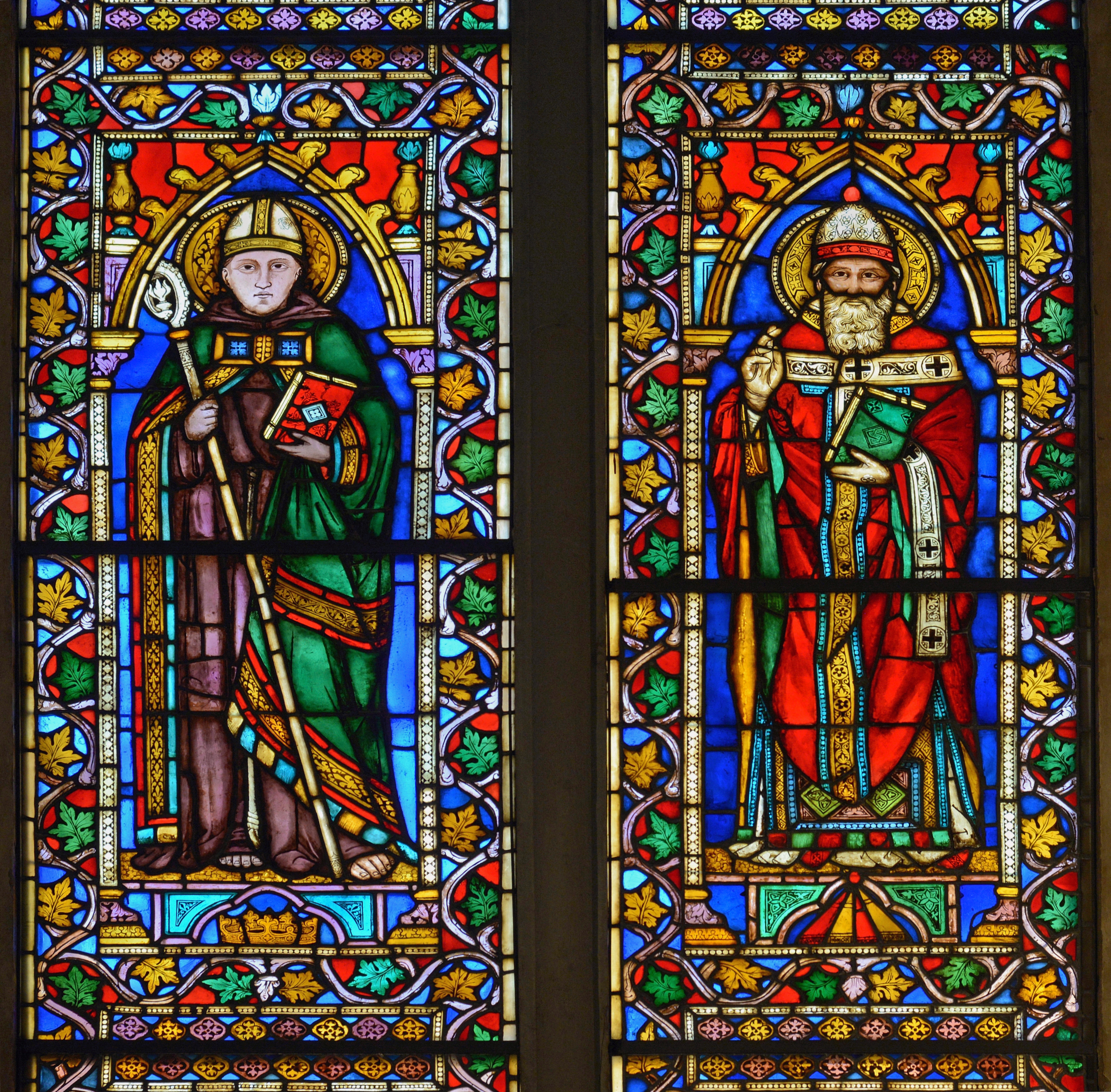 The central part of the stained glass by Taddeo Gaddi in Baroncelli Chapel. Basilica Santa Croce in Florence, Italy